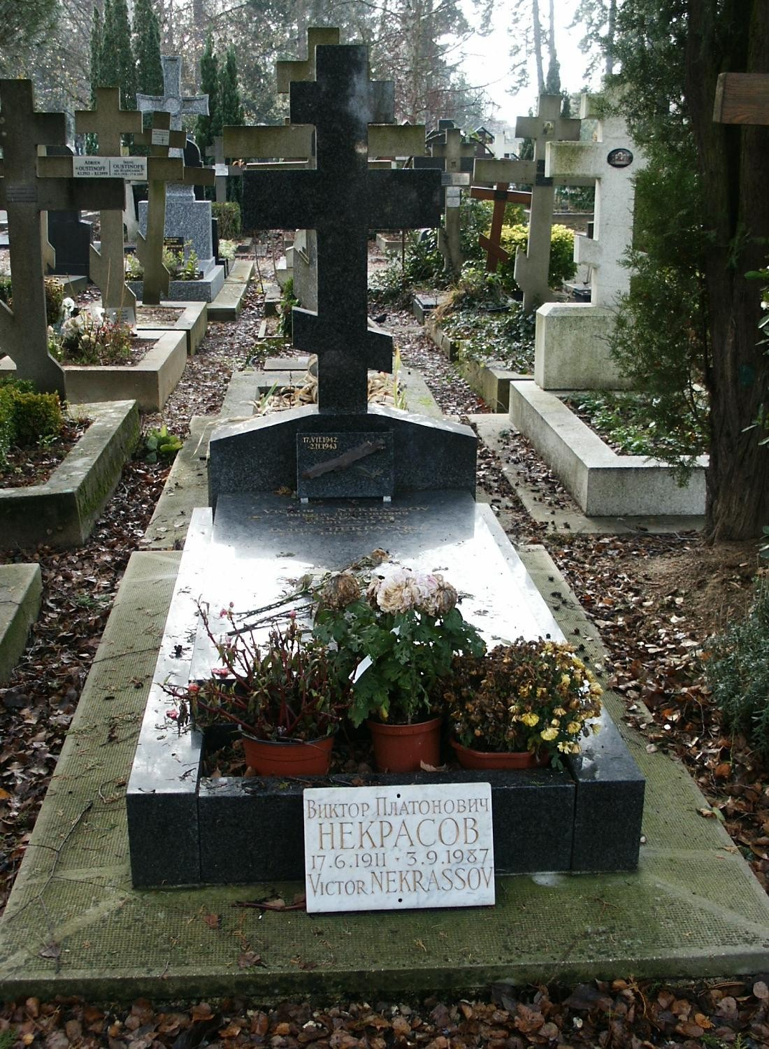 Victor Nekrasov grave